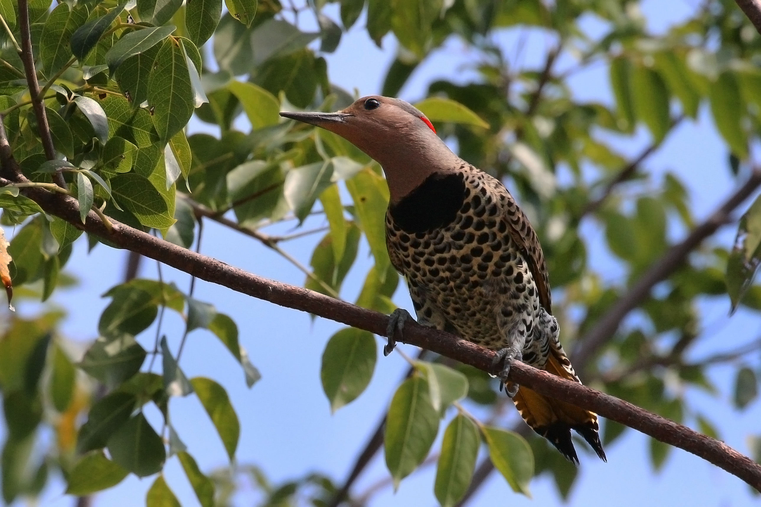 Northern flicker (Colaptes auratus chrysocaulosus) female, Cuba